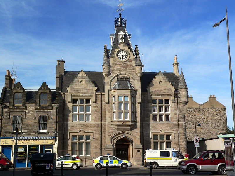 Portobello Police Station[1], Portobello, Edinburgh, Scotland. Build in 1878 as Portobello Town Hall, it was replaced in 1896. The upper floor was the public library until the present building was constructed in the 1960s.